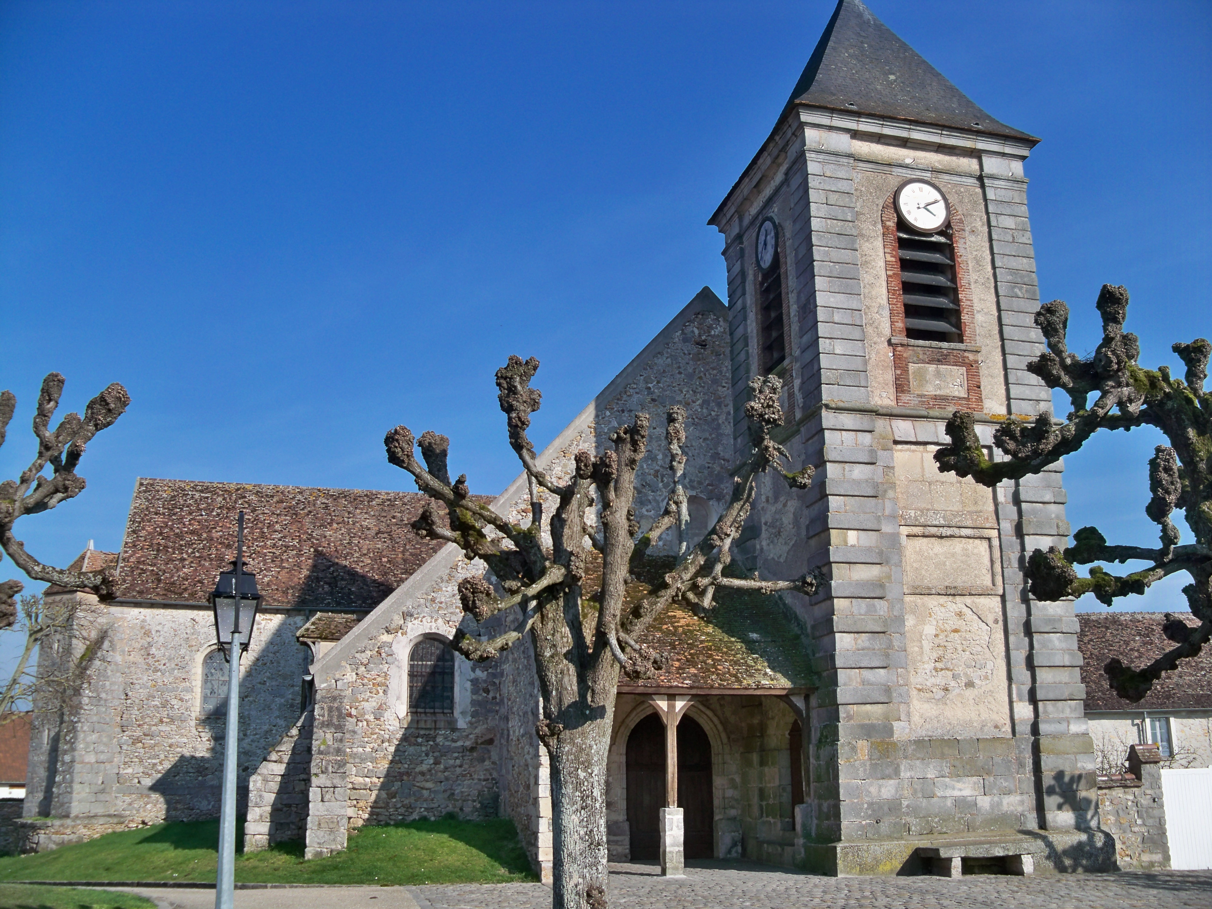 Saint-Paul church of Chailly en Bière (Seine et Marne), France